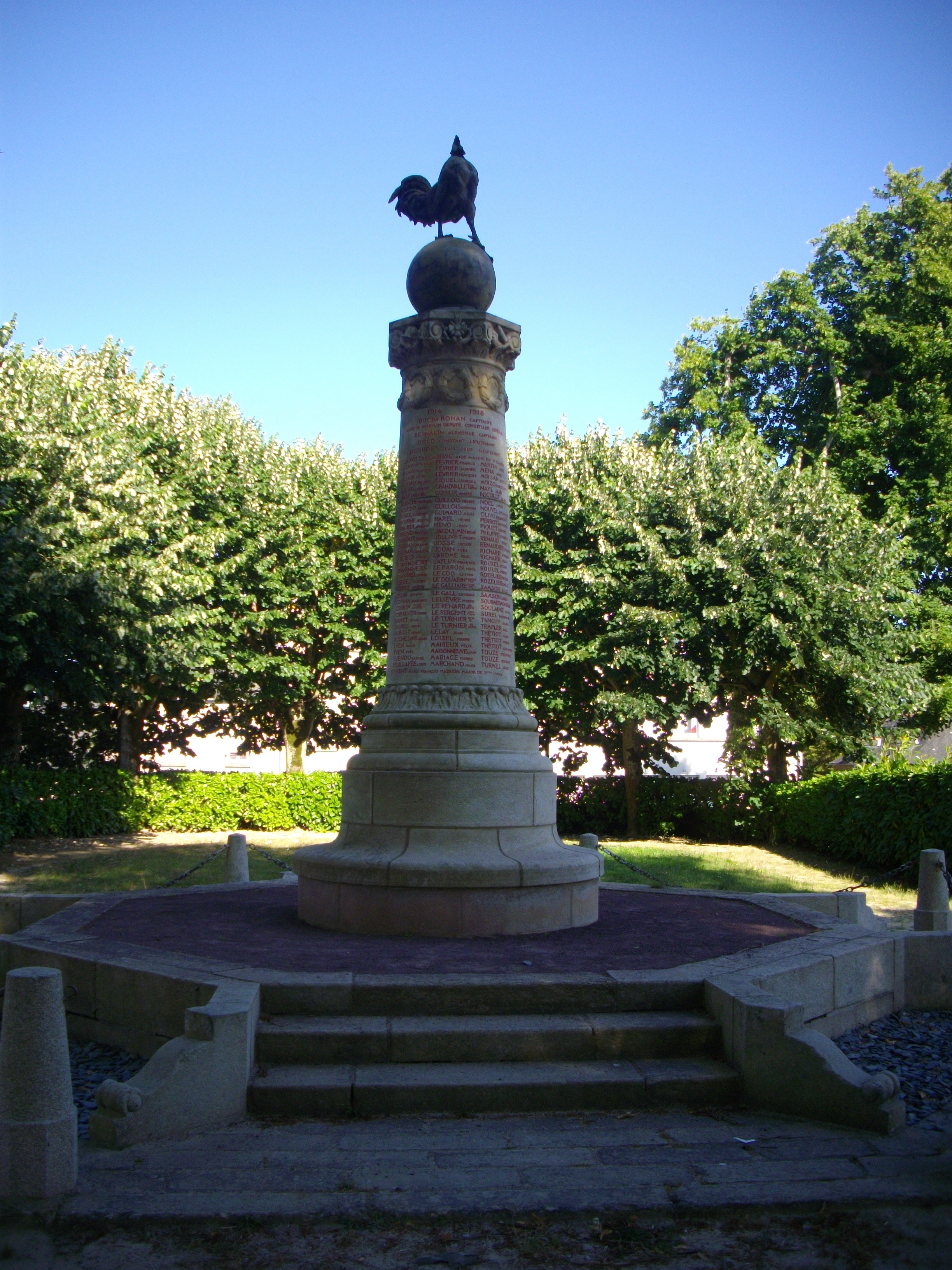 Promenade known as "The Mail" in Josselin (Morbihan, France) : war memorial .